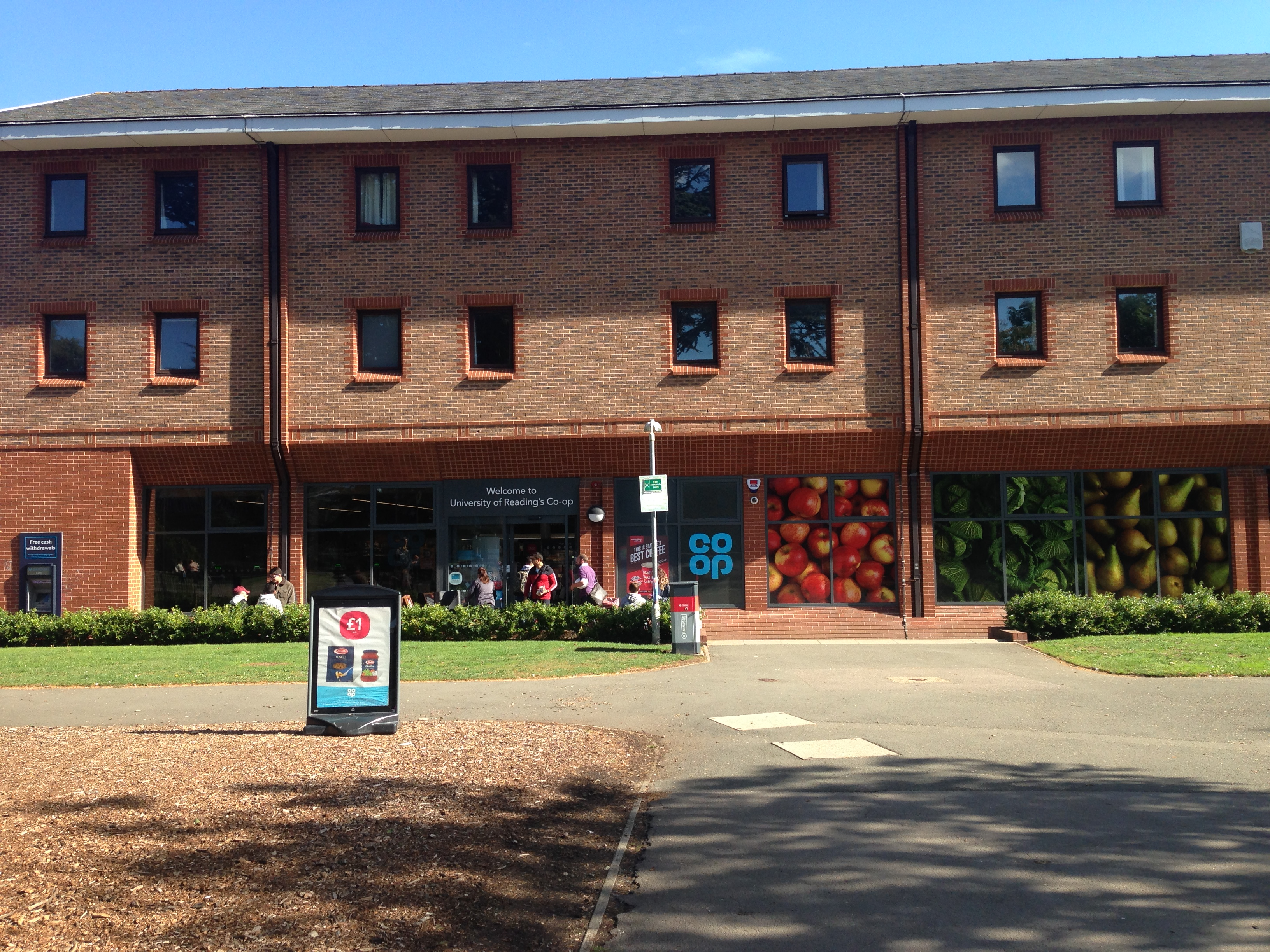 A branch of The Co-op at the University of Reading's Whiteknights campus. The University Co-op is brand new, and as such features the revived 1968 'Cloverleaf' branding.